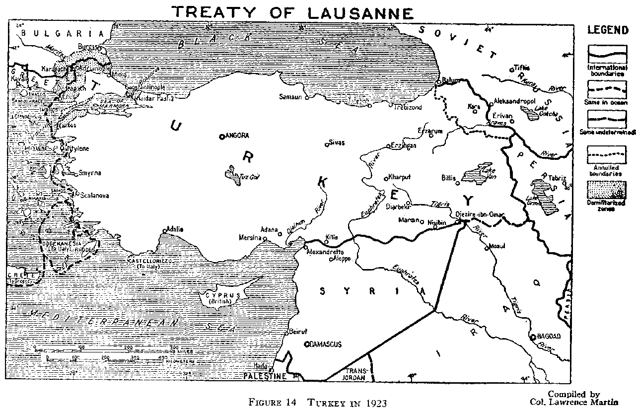 Borders of the Republic of Turkey as determined in 1923.